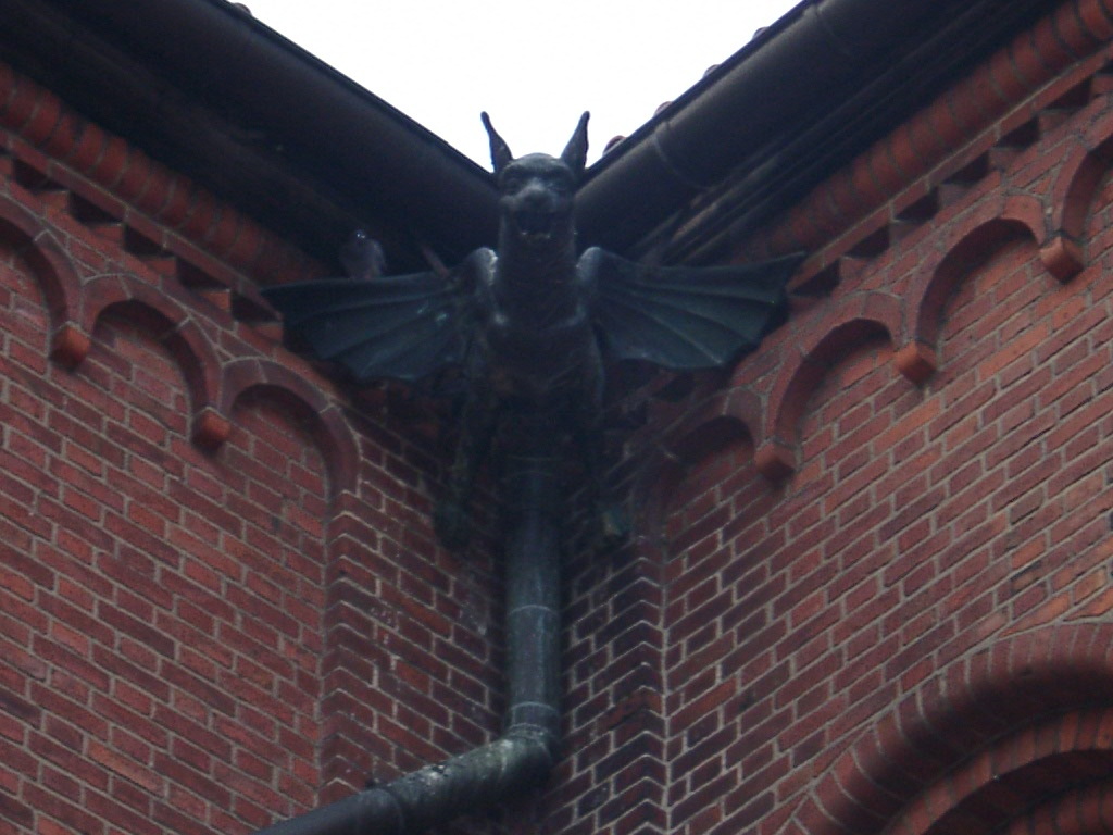 church Ostrów Wielkopolski